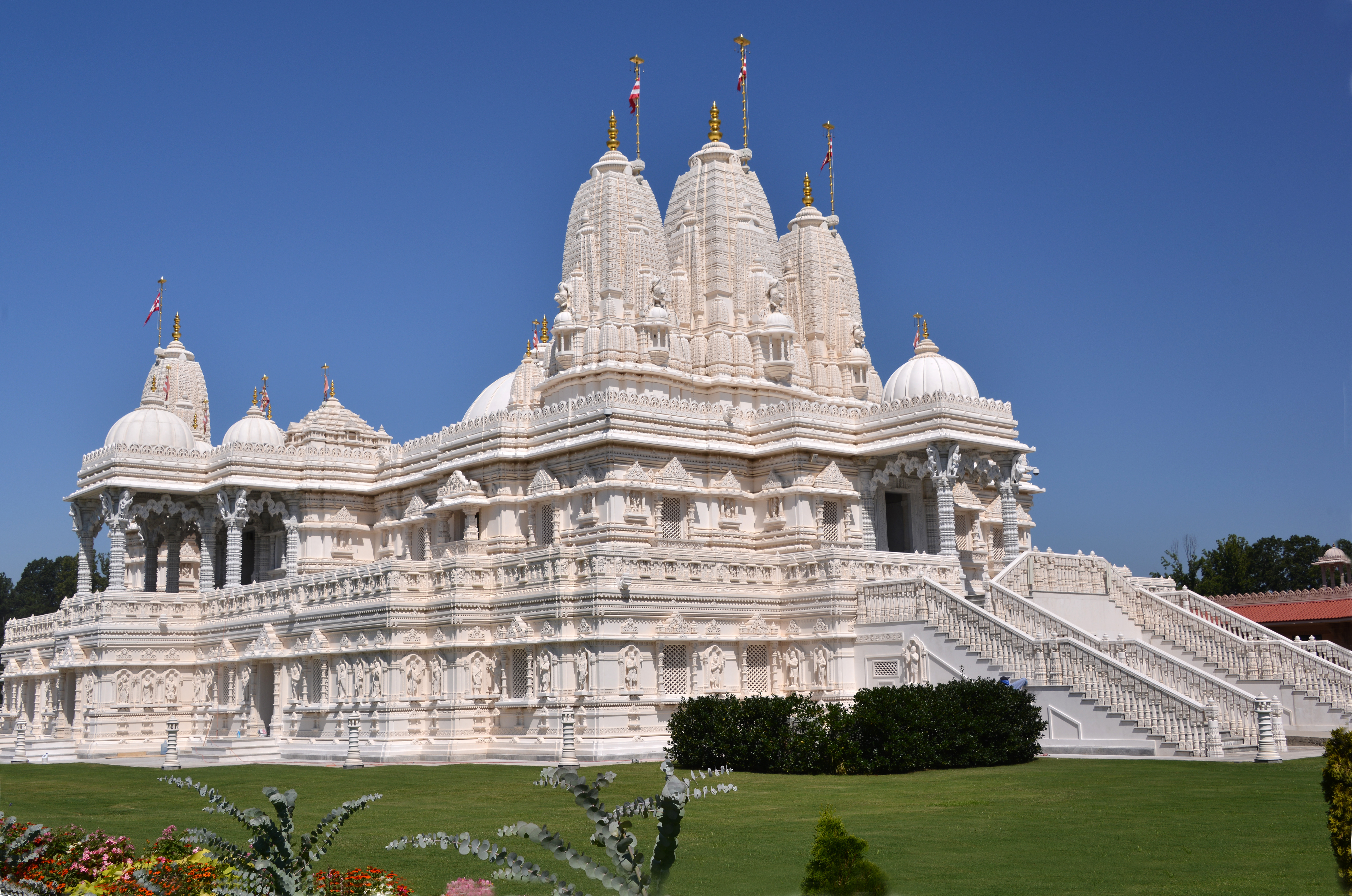 The BAPS Shri Swaminarayan Mandir Atlanta is the sixth BAPS traditional Hindu stone temple built outside of India. It is also one of the largest Hindu temple of its kind outside of India. Hinduism in the United States